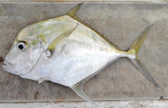 Alectis alexandrina from Cape Point, Gambia 8 Feb 2011 Uploaded under CC-BY